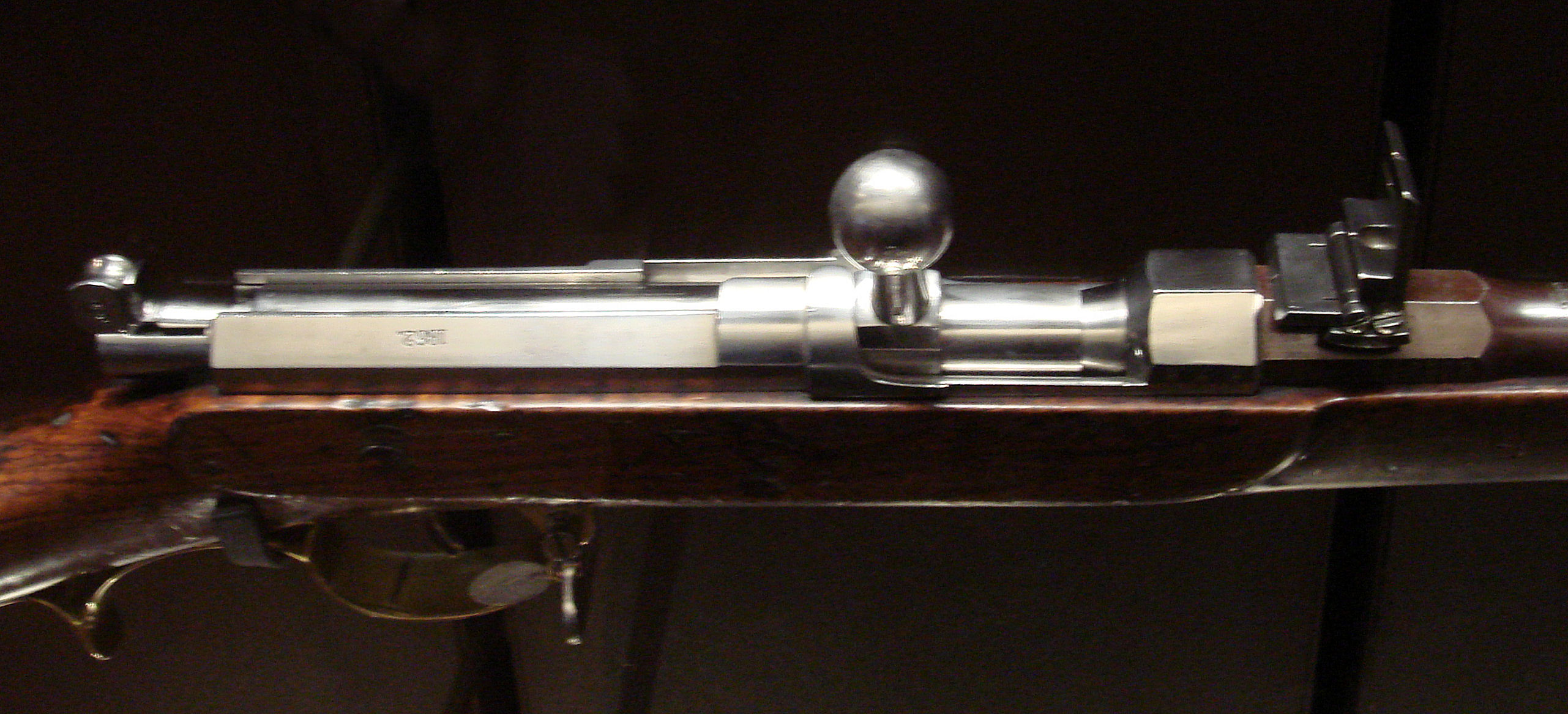 Dreyse_mechanism_model_1865